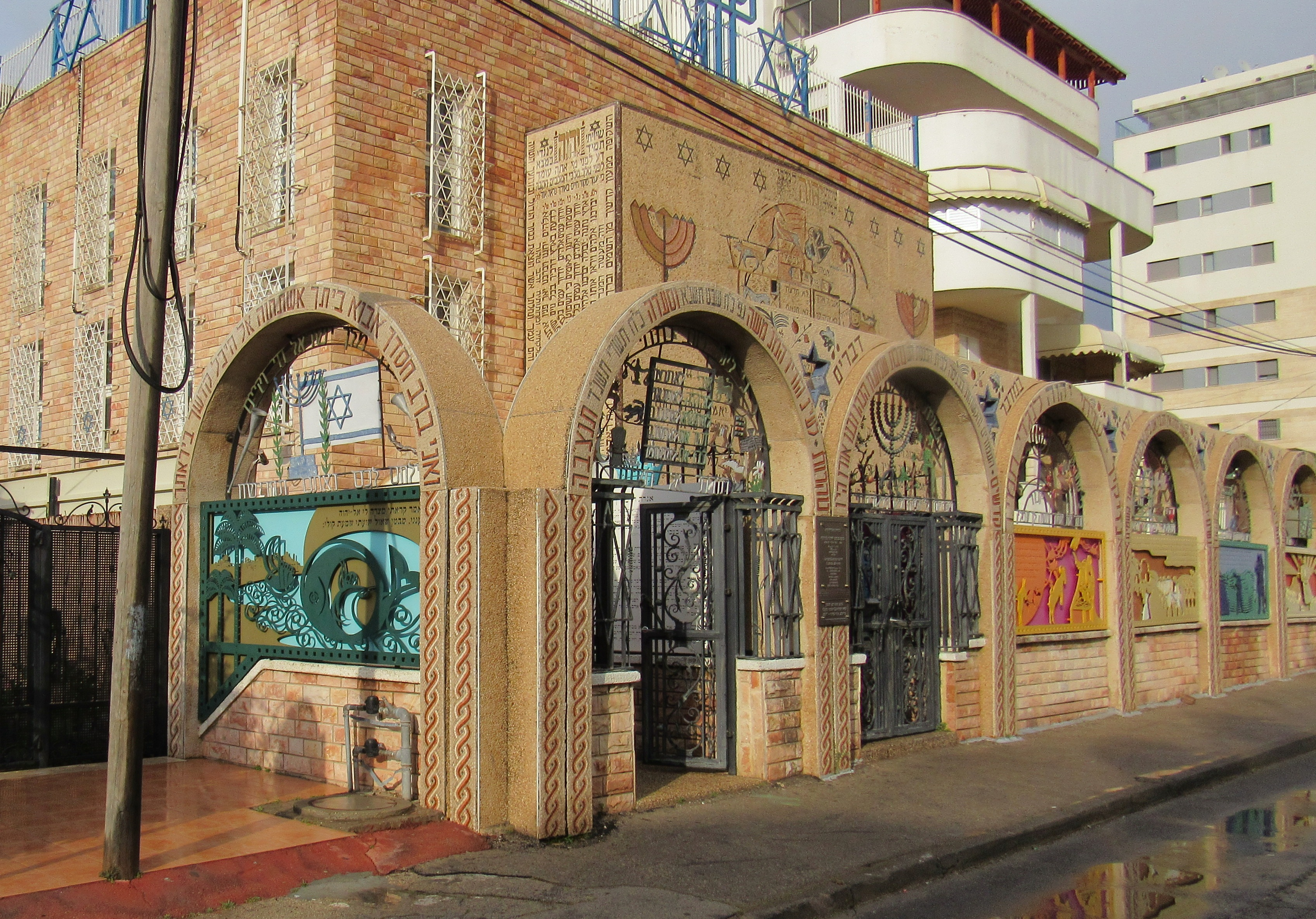 The Tunisian Jews Synagogue, Akko (11 April, 2015)